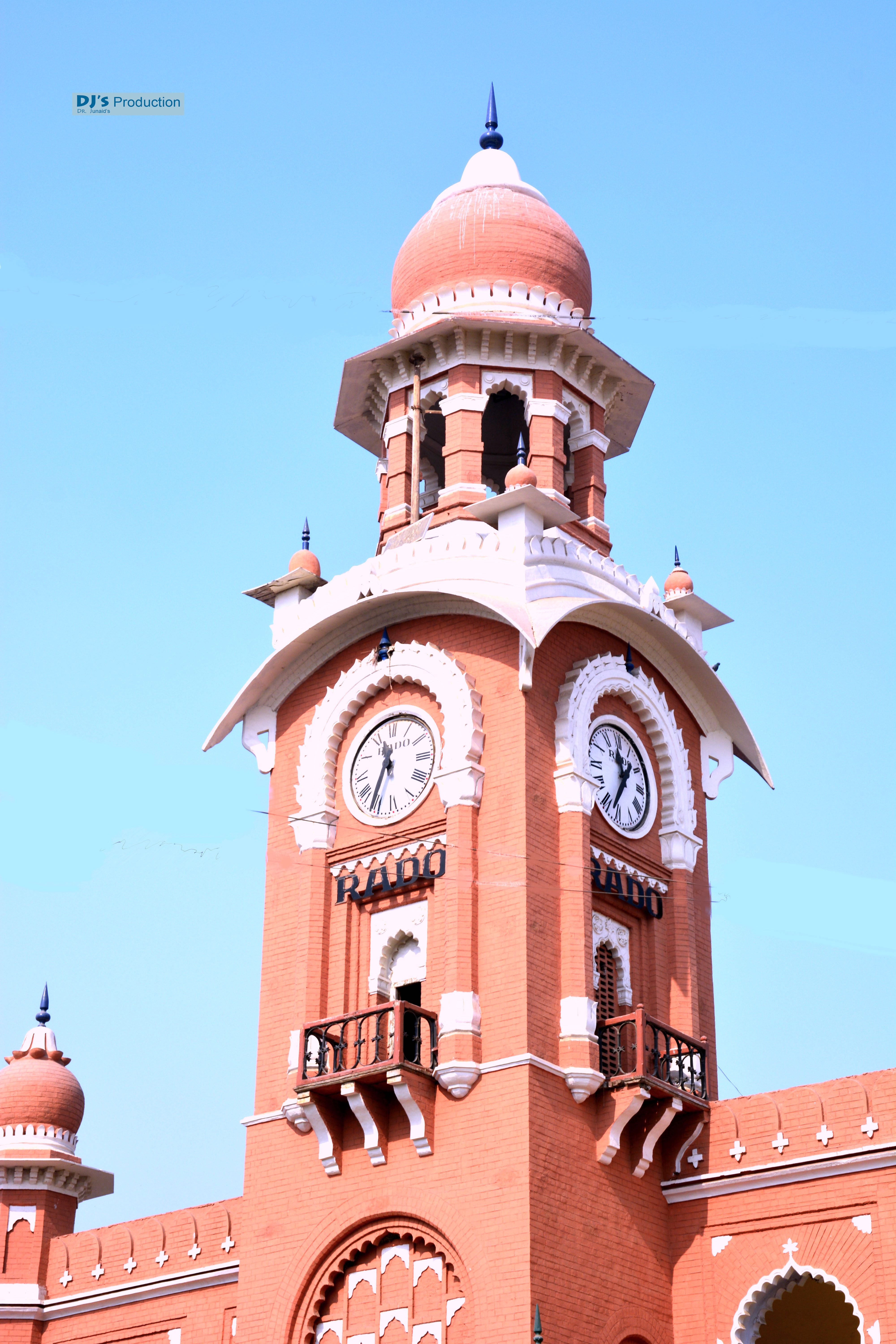 Ghanta Ghar This is a photo of a monument in Pakistan identified as the PB-U-42